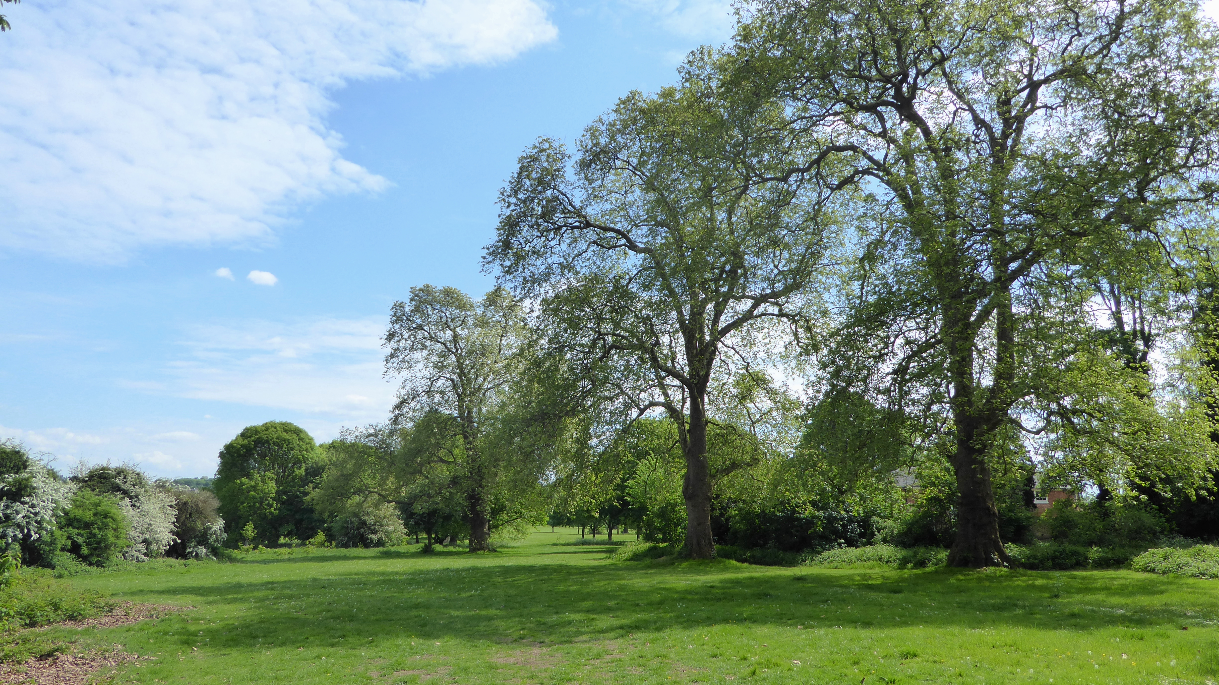 Landscape at Foots Cray Meadows, near the location of the manor house and stables.